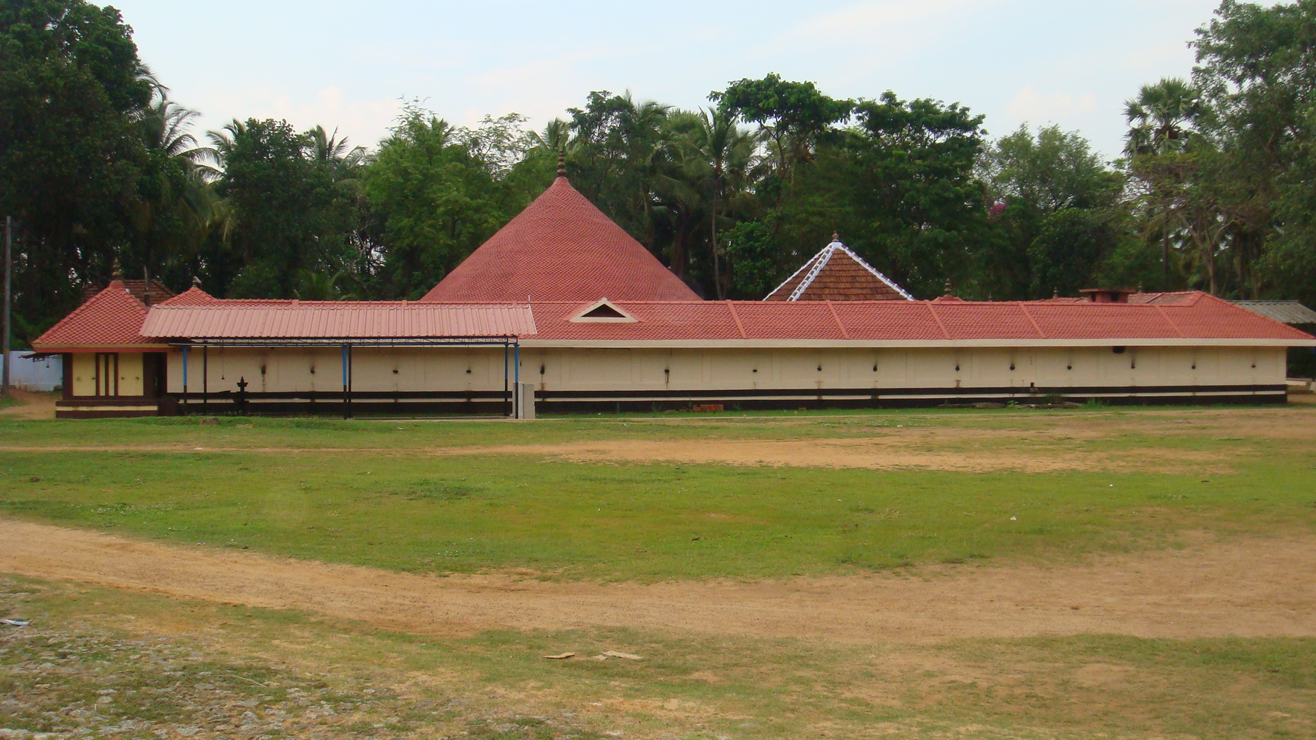 Azhakotha Mahadeva Temple, Kulavanmokku, Kuzhalmannam